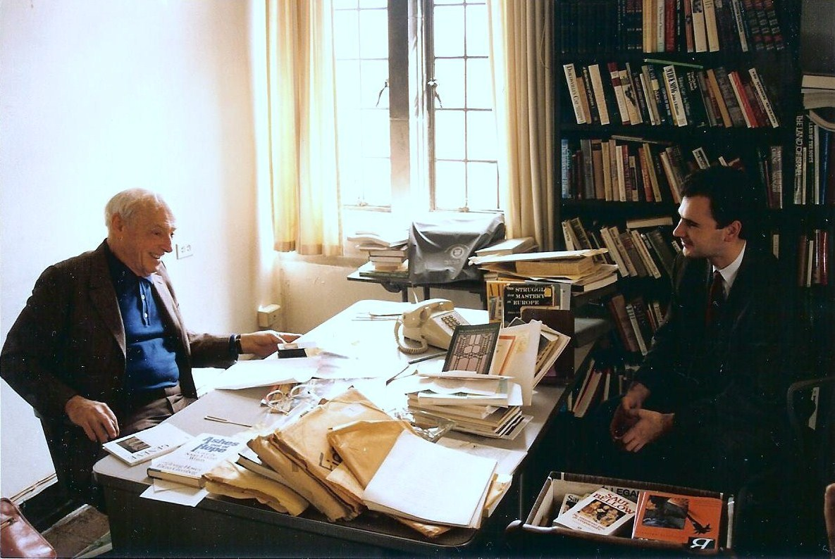 Photograph taken during the Stojanovic's interview with Saul Bellow at the University of Chicago.